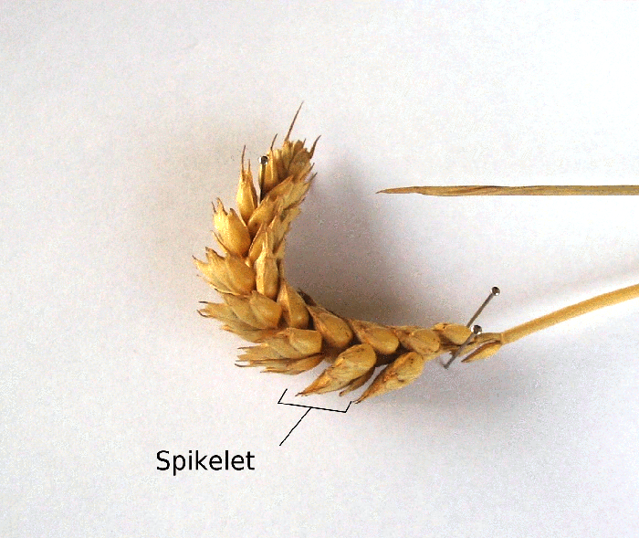 Wheat spike (Triticum aestivum) bent to show the spikelets